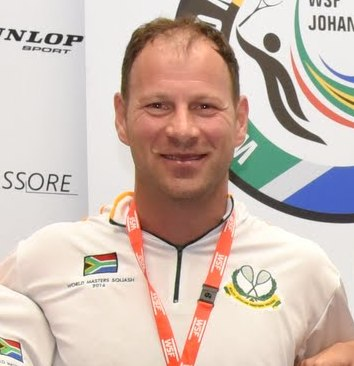 Various winners of the World Squash Masters 2016